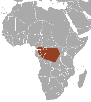 Short-palated Fruit Bat (Casinycteris argynnis) range